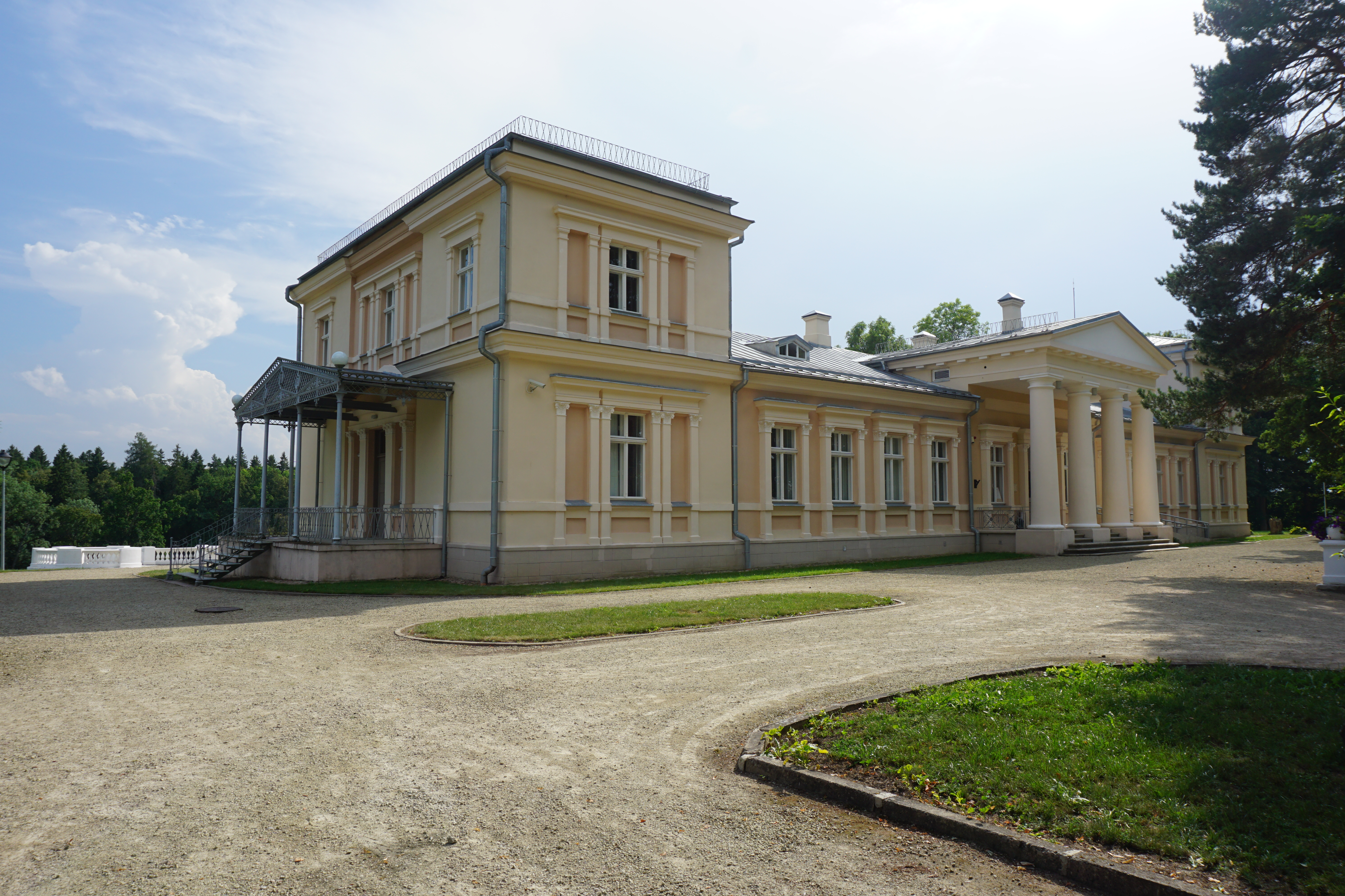 Renavas Manor 2018